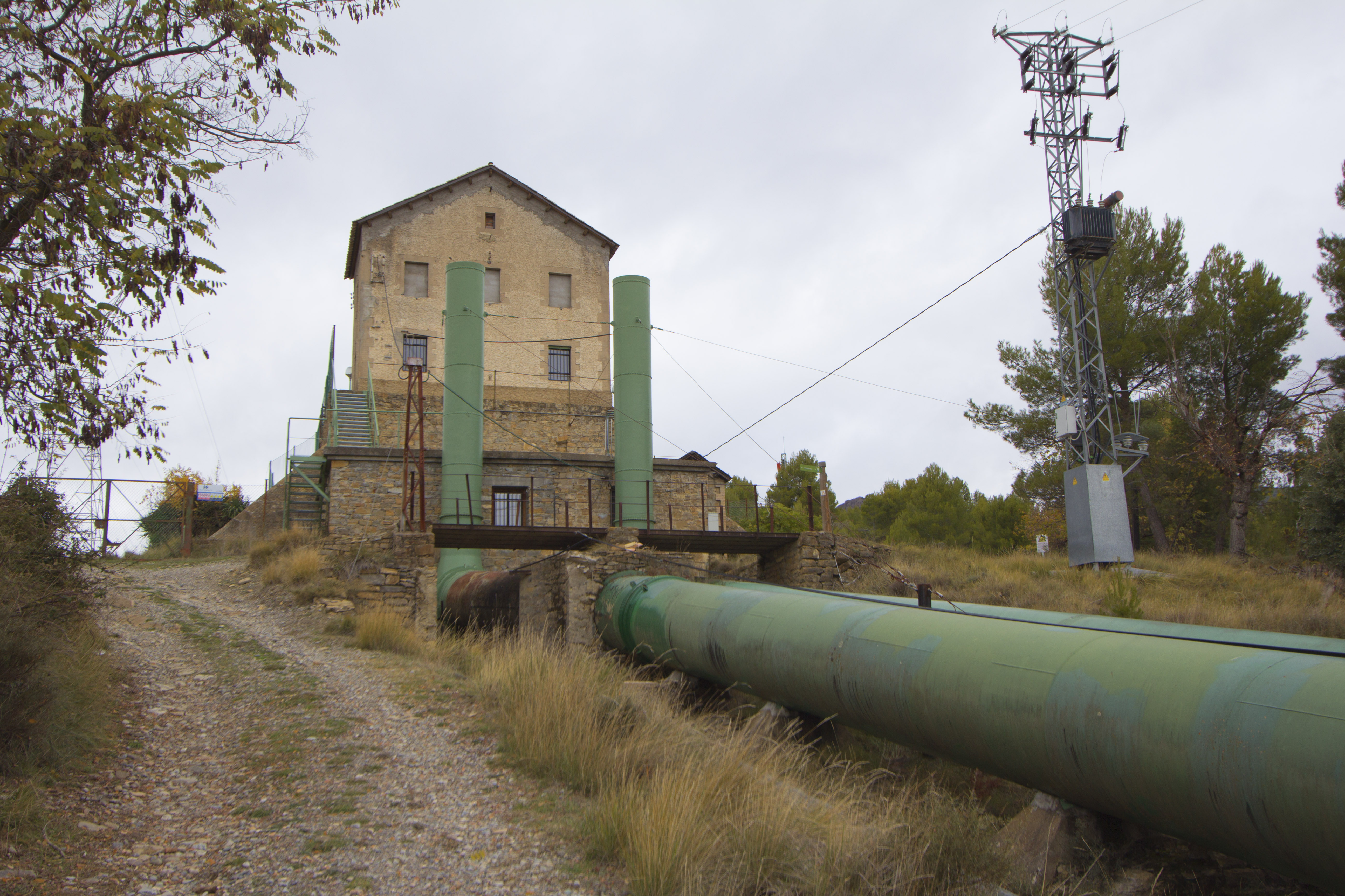 Air pipes on penstocks at Pobla de Segur hydropower plant (Catalonia).